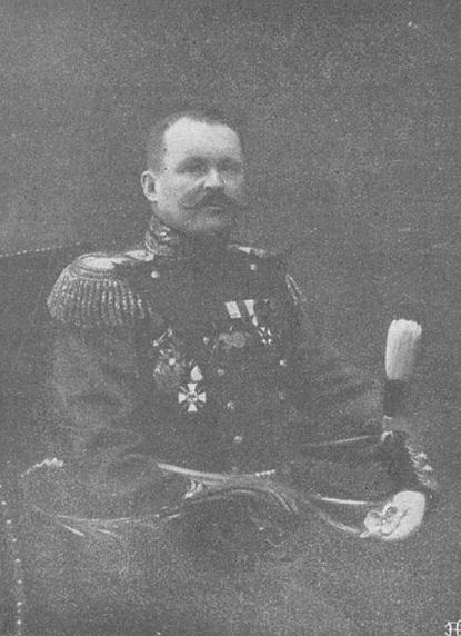 Gutor, Aleksey Yevgenyevich